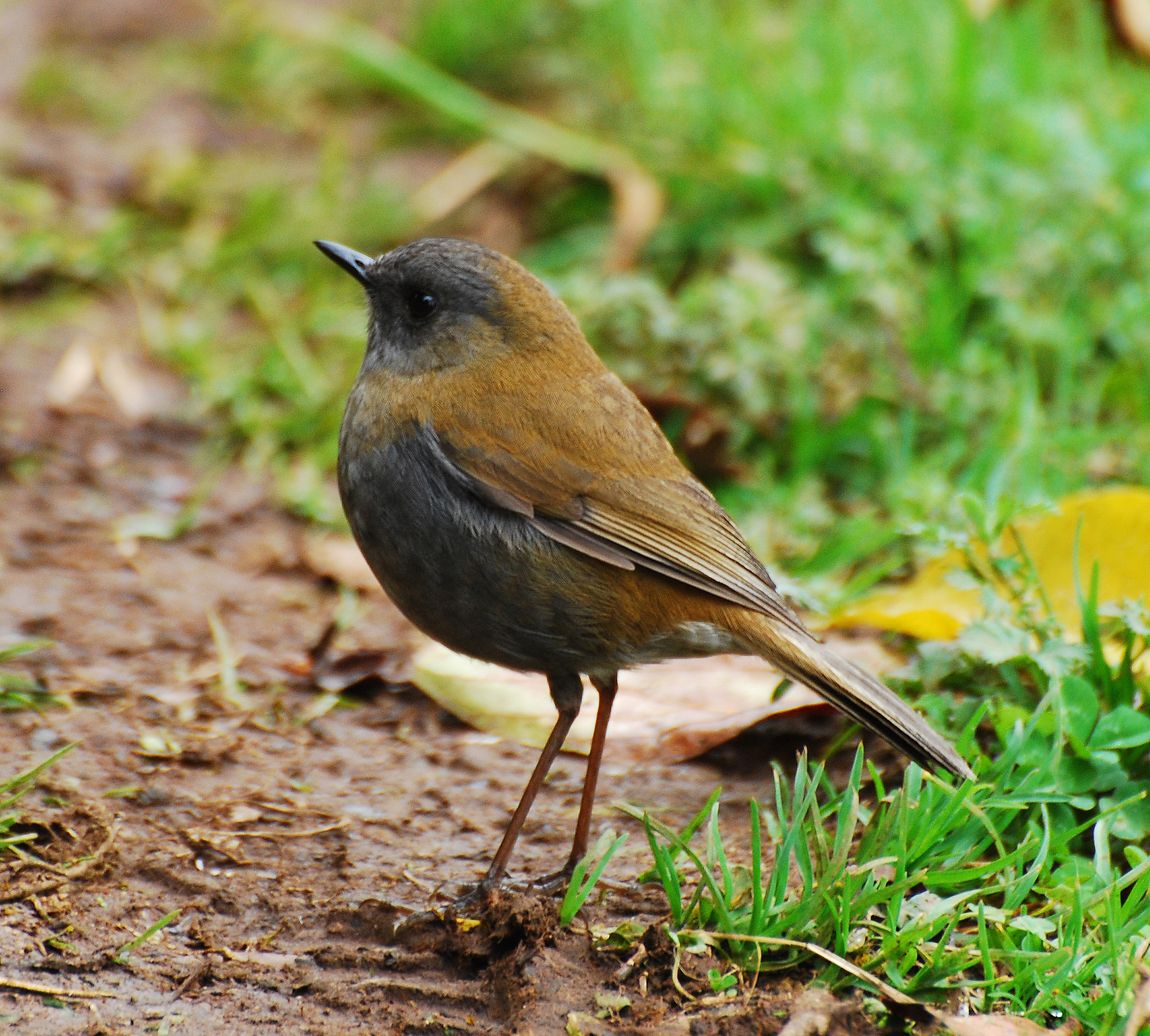 Black-billed Nightengale Thrush at the Mirador de Quetzals, Costa Rica, 080226. Catharus gracilirostris.